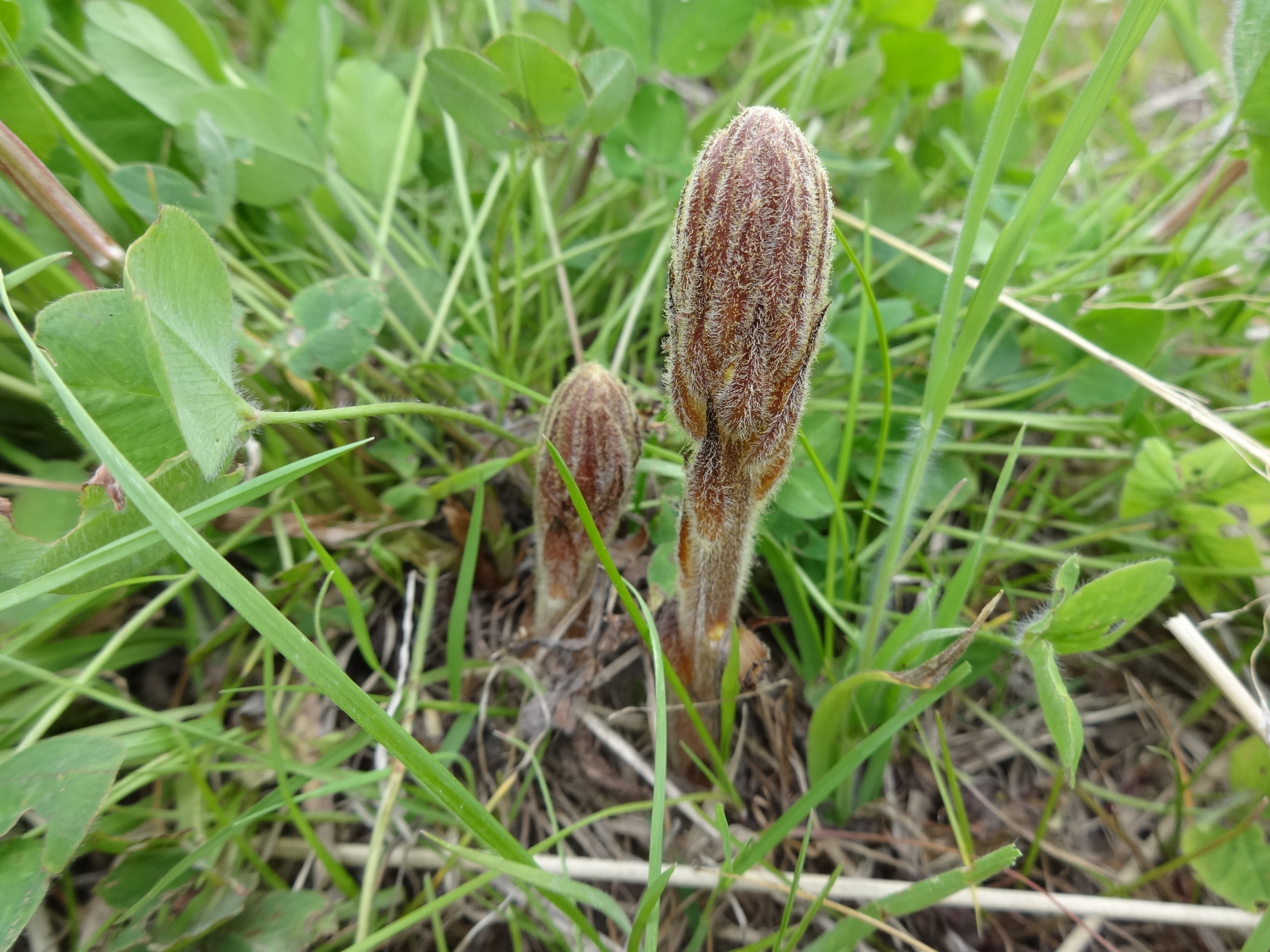 Sprout of Orobanche minor that parasitize Trifolium repens.